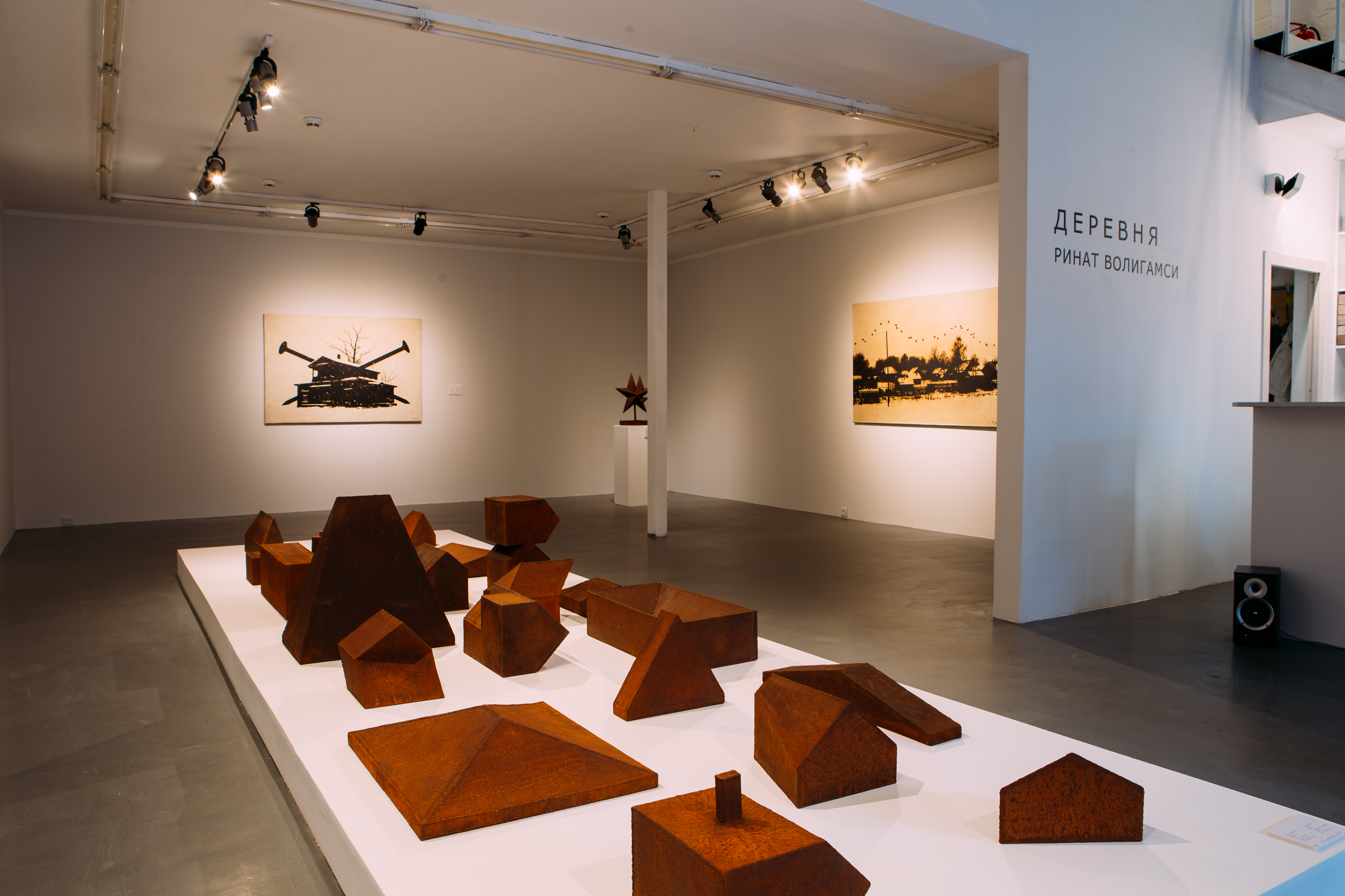 11.12GALLERY Voligamsi